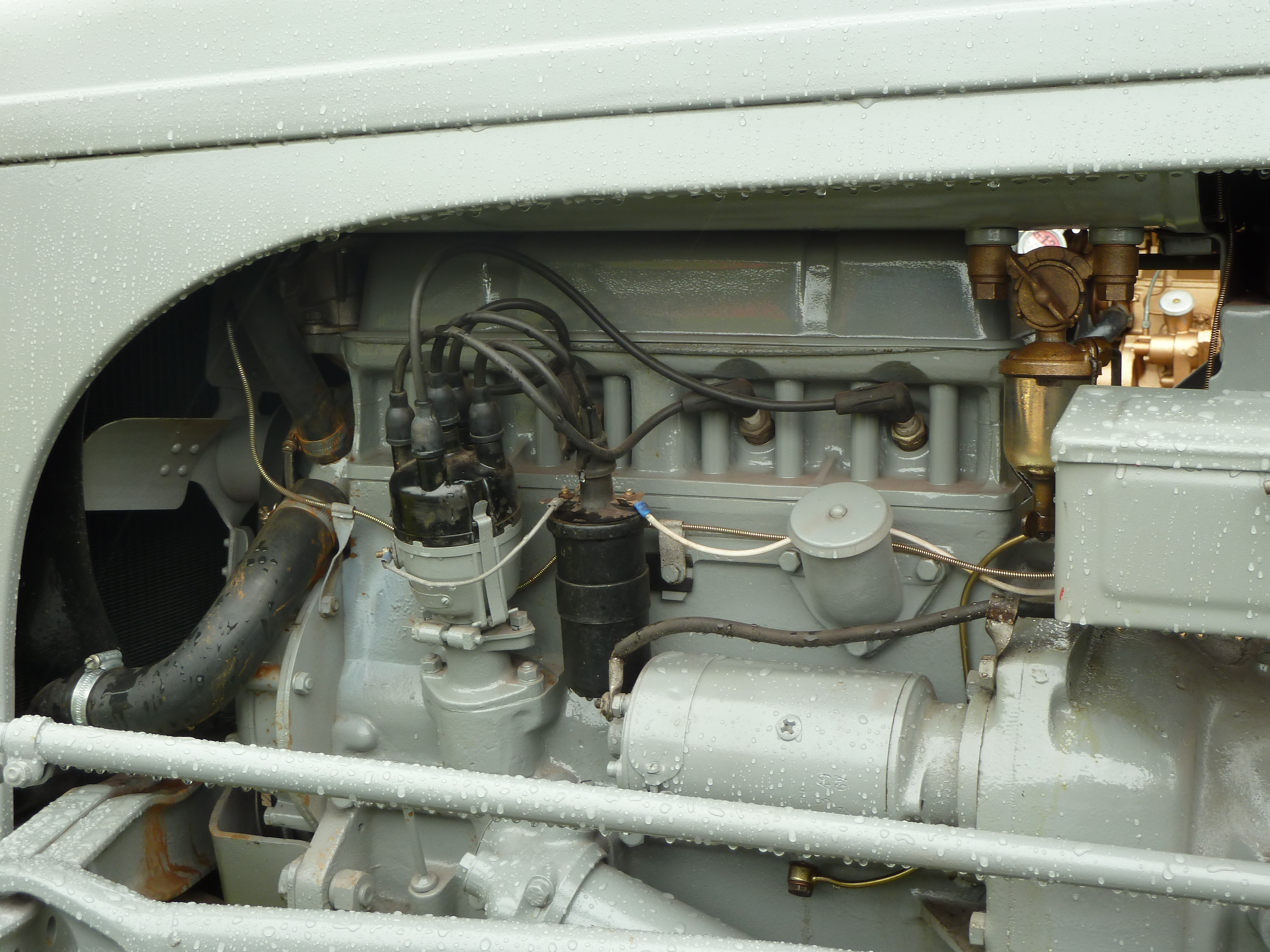 Standard inline-four engine, spark plug side of head, Ferguson TE20 tractor Abergavenny steam rally, 2011.